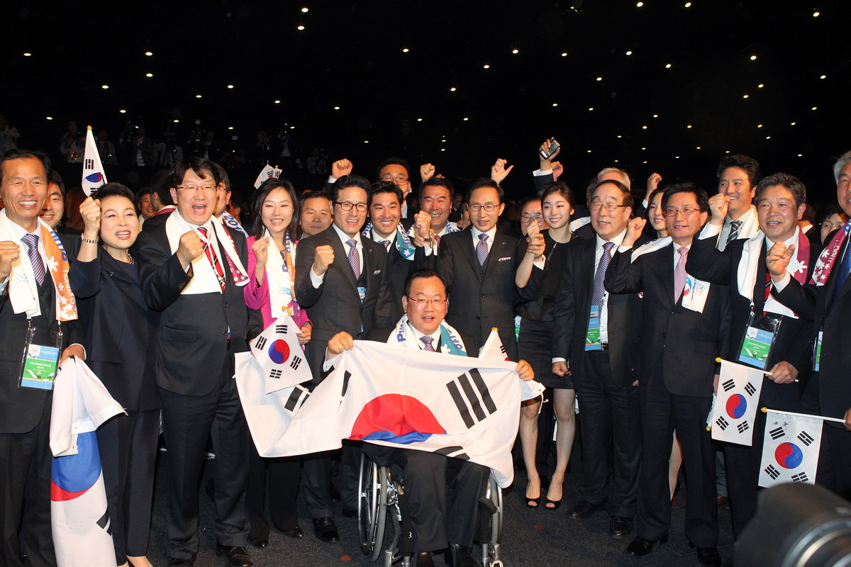 President Lee Myung-bak, members of the PyeongChang Bidding Committee and with a delegation of Pyeongchang residents cheer as Pyeongchang was selected as the Games' host at the IOC general assembly in Durban, South Africa. Pyeongchang will host the 2018 Winter Olympics after beating off Munich and Annecy as the IOC vote results are announced in Durban.